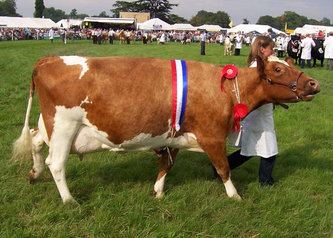 A prize winning Ayrshire cow at the Romsey show 2005.